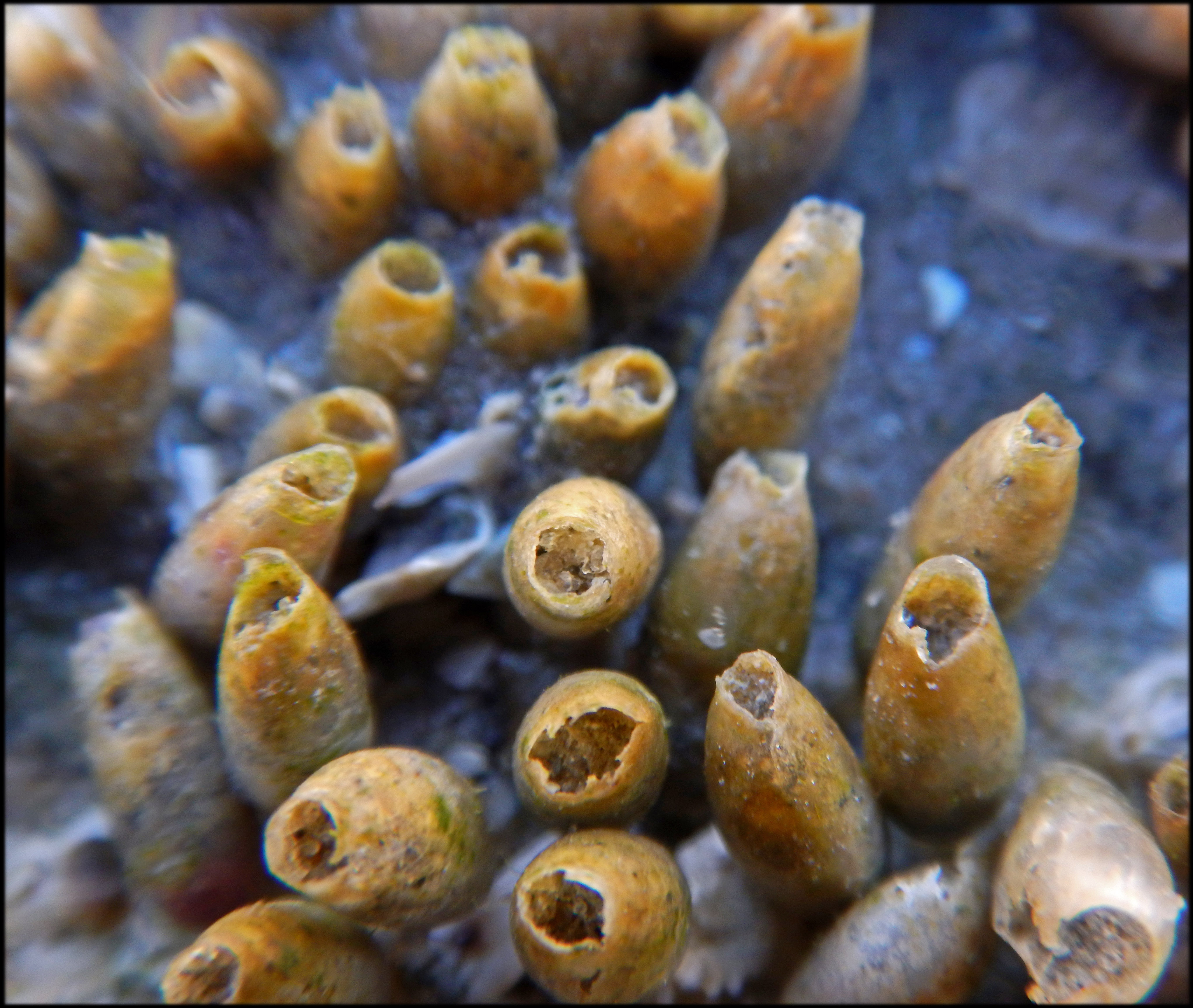 Ovigerous capsules (each containied several eggs) of gastropods Nucella lapillus, photographed at low tide on the foreshore in Wimereux (northern France) mid 2016